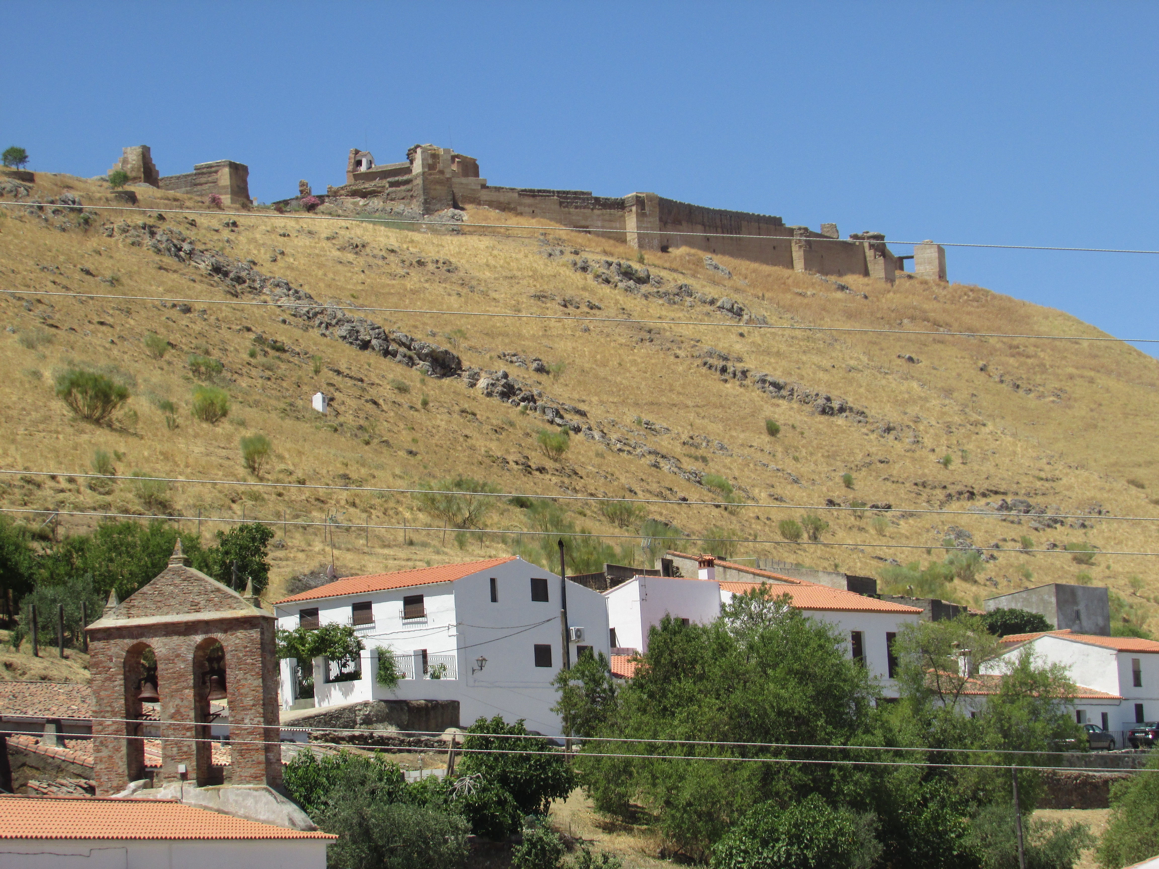 The hilltop fortress of the Alcazaba near the village of Reina in the province of Badajoz, Extremadura, Spain. This view was taken from inside the village of Reina.